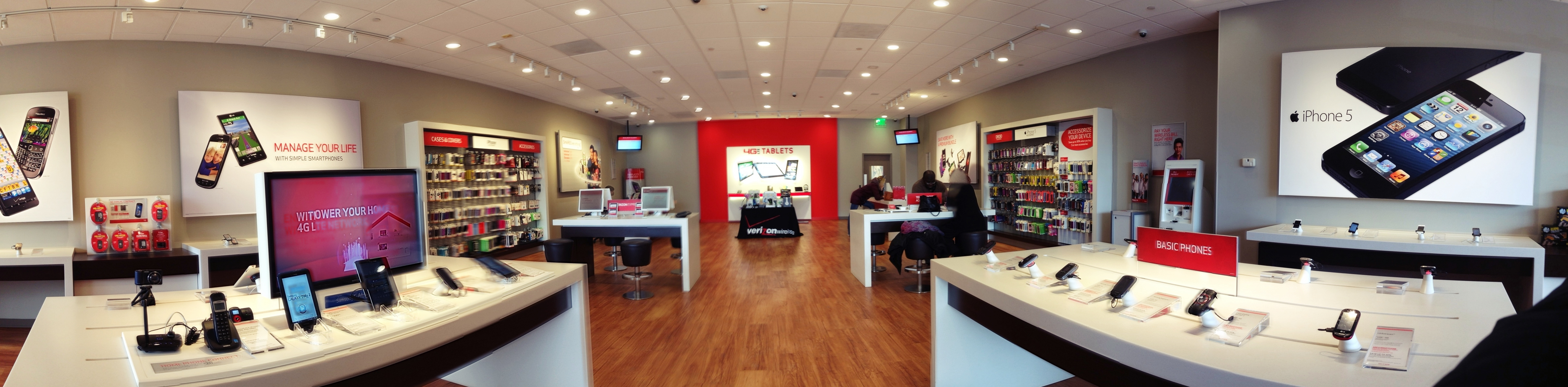 Verizon Wireless Store, Norwalk, CT 06854, USA - Feb 2013